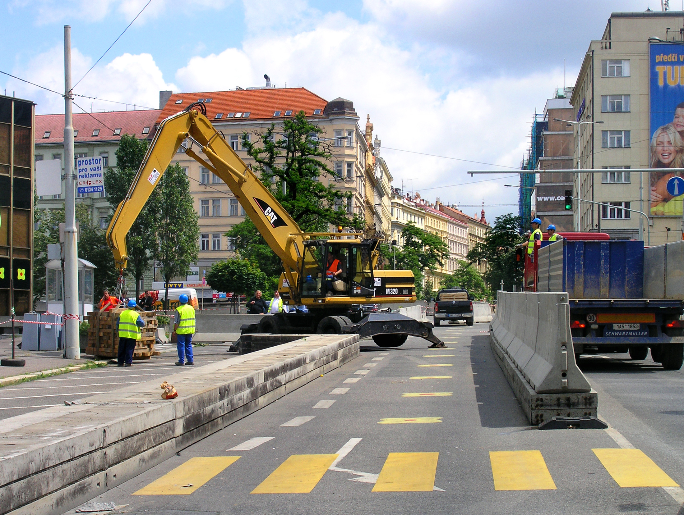 Vinohradská street in Vinohrady, Prague. Concrete barriers were intended to protect the Radio Free Europe building (former Federal Parliament; to the left).